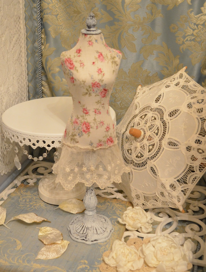 Shabby Chic style window display with vintage dress form and parasol